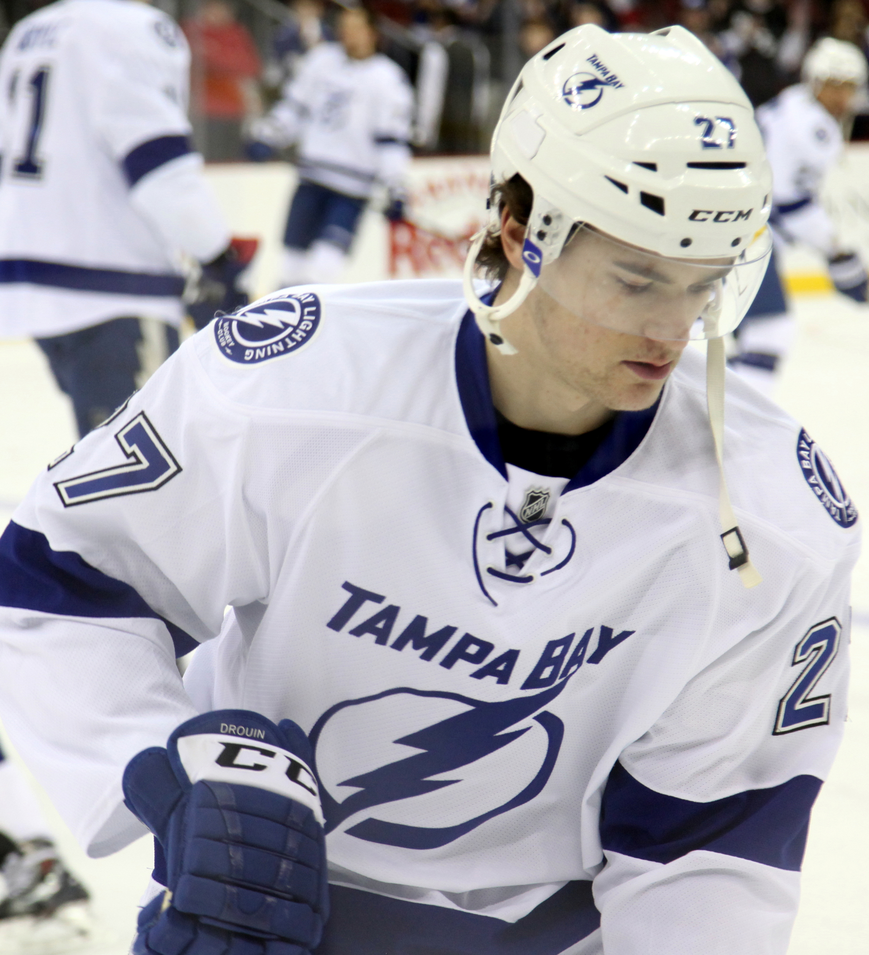 Jonathan Drouin in December 2014.